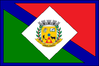 Flags of the city of Angelândia, Minas Gerais, Brazil.